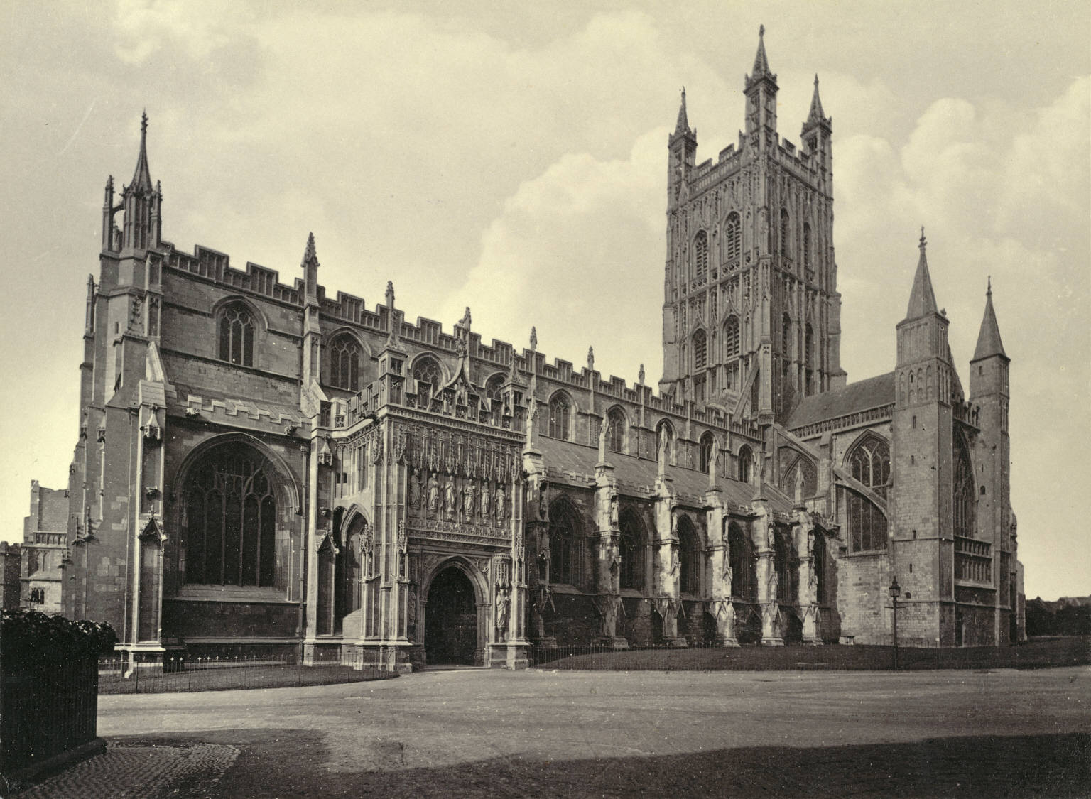 Collection: A. D. White Architectural Photographs, Cornell University Library Accession Number: 15/5/3090.01150 Title: Gloucester Cathedral Building Date: ca. 1089-ca. 1470 Photograph date: ca. 1865-ca. 1885 Location: Europe: United Kingdom; Gloucester Materials: albumen print Image: 6 1/8 x 8 3/8 in.; 15.5575 x 21.2725 cm Provenance: Gift of Andrew Dickson White Persistent URI: There are no known copyright restrictions on this image. The digital file is owned by the Cornell University Library which is making it freely available with the request that, when possible, the Library be credited as its source. We had some help with the geocoding from Web Services by Yahoo! This image is from the Cornell University Library's The Commons Flickr stream. The Library has determined that there are no known copyright restrictions. This image was taken from Flickr's The Commons. The uploading organization may have various reasons for determining that no known copyright restrictions exist, such as: The copyright is in the public domain because it has expired; The copyright was injected into the public domain for other reasons, such as failure to adhere to required formalities or conditions; The institution owns the copyright but is not interested in exercising control; or The institution has legal rights sufficient to authorize others to use the work without restrictions. More information can be found at Please add additional copyright tags to this image if more specific information about copyright status can be determined. See Commons:Licensing for more information.No known copyright restrictionsNo restrictions